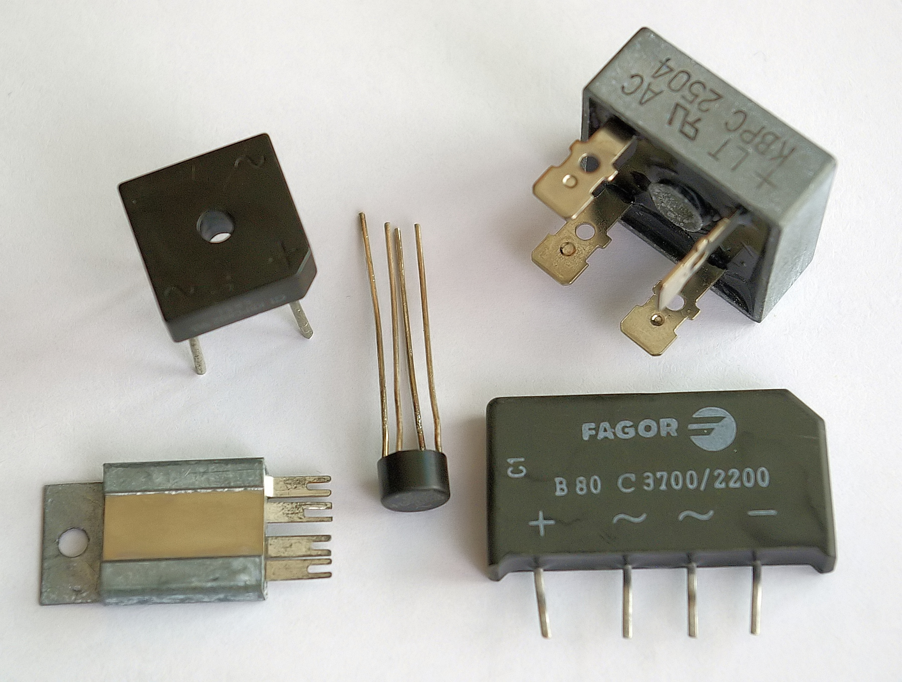 Bridge rectifiers of various designs, including a selenium rectifier in a flat package (bottom left, 30V, 300mA) and a model for the connector receptacles.